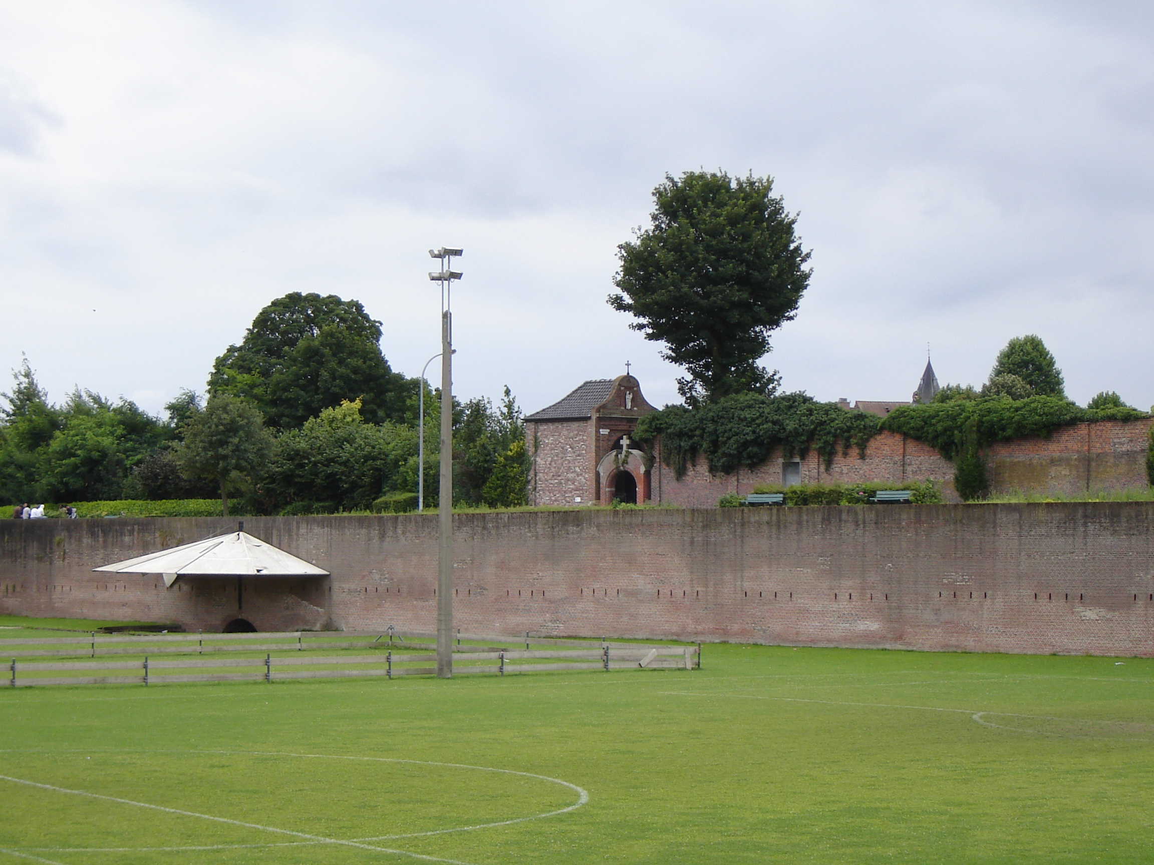 Ramparts in Menen, at the Ter Walle park. Menen, West Flanders, Belgium